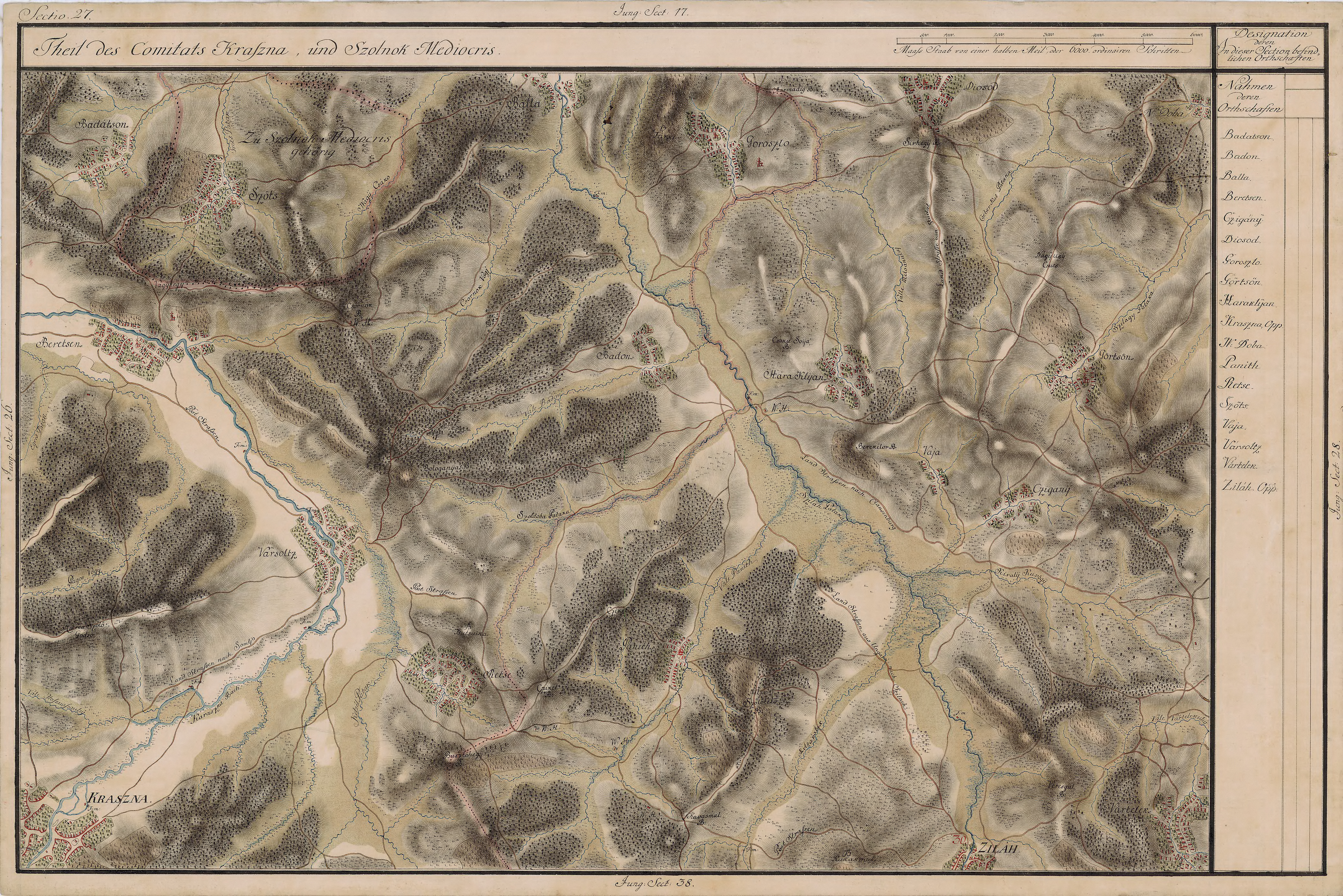 Grand Duchy of Transylvania, 1769-1773. Josephinische Landaufnahme pg.027